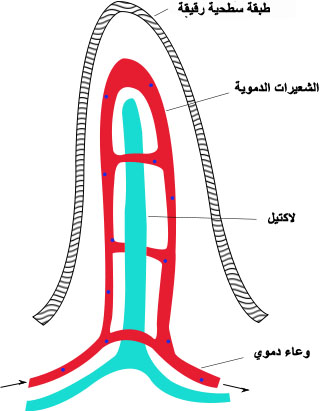 Intestinal villus simplified